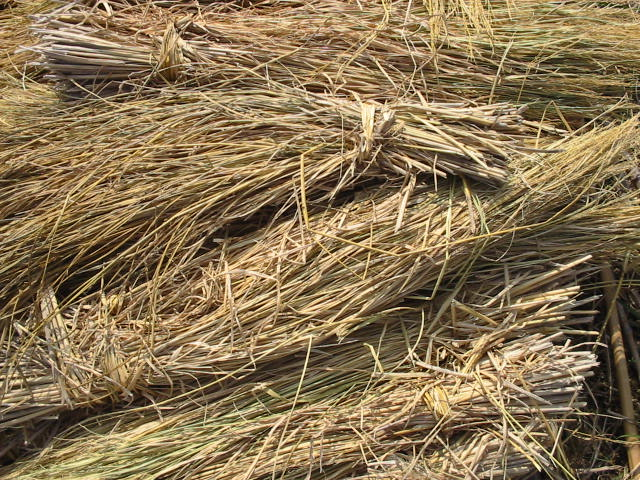 Bundles of nice straw. Bân-lâm-gú: 稻草